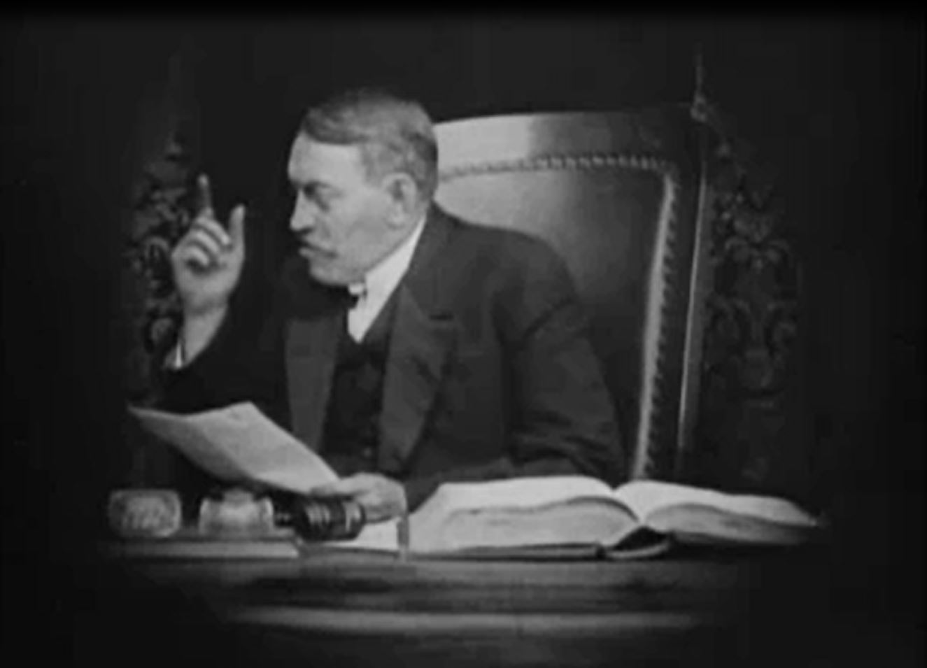 Low resolution screenshot from the public domain version of the film Intolerance (1916). A scene from the Modern Story of the film, where the Judge (Lloyd Ingraham) announces the guilty verdict, saying that the Boy is "To be hanged by the neck until dead, dead, dead!"